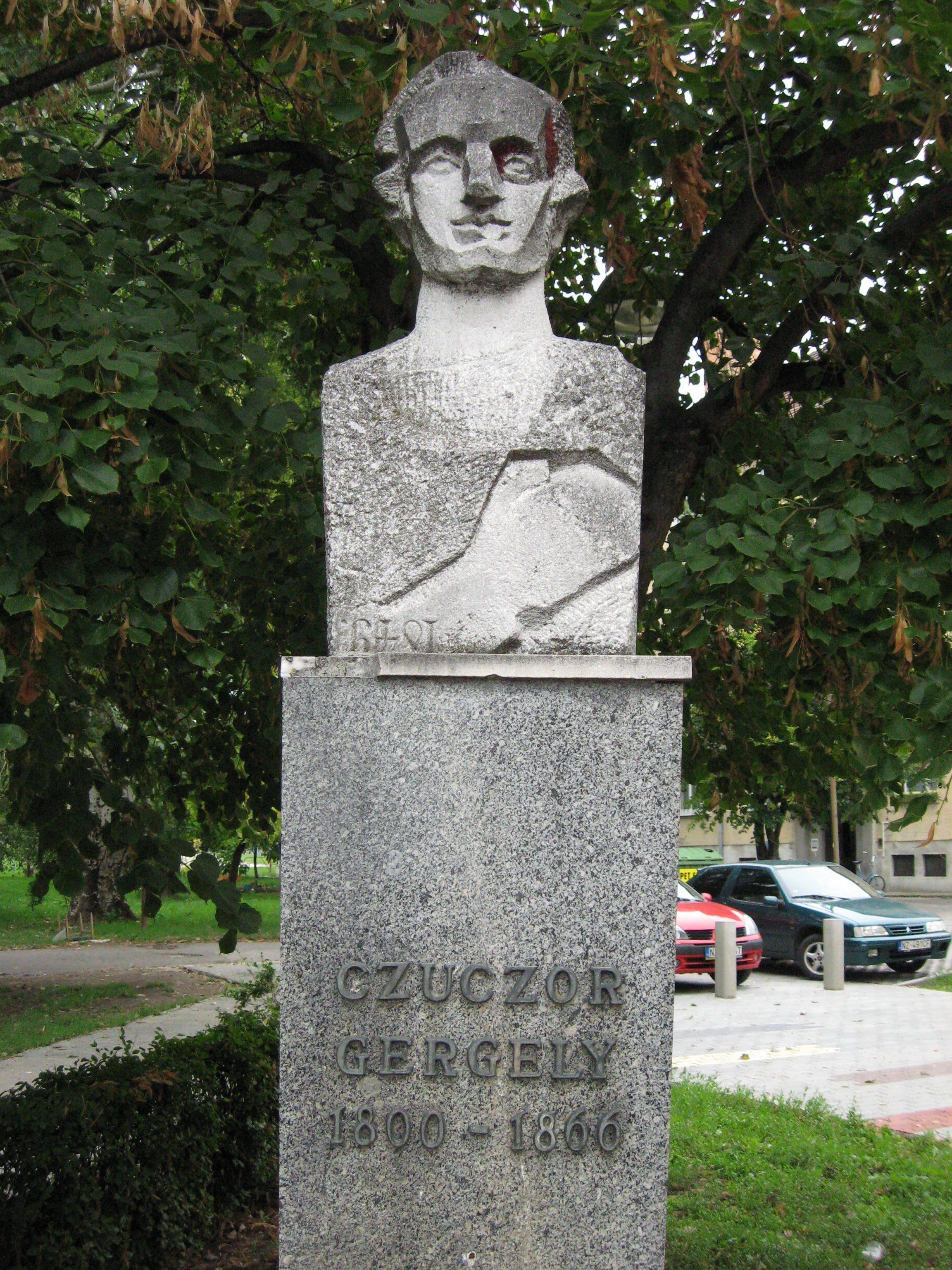 The newer statue of Gergely Czuczor in Nové Zámky